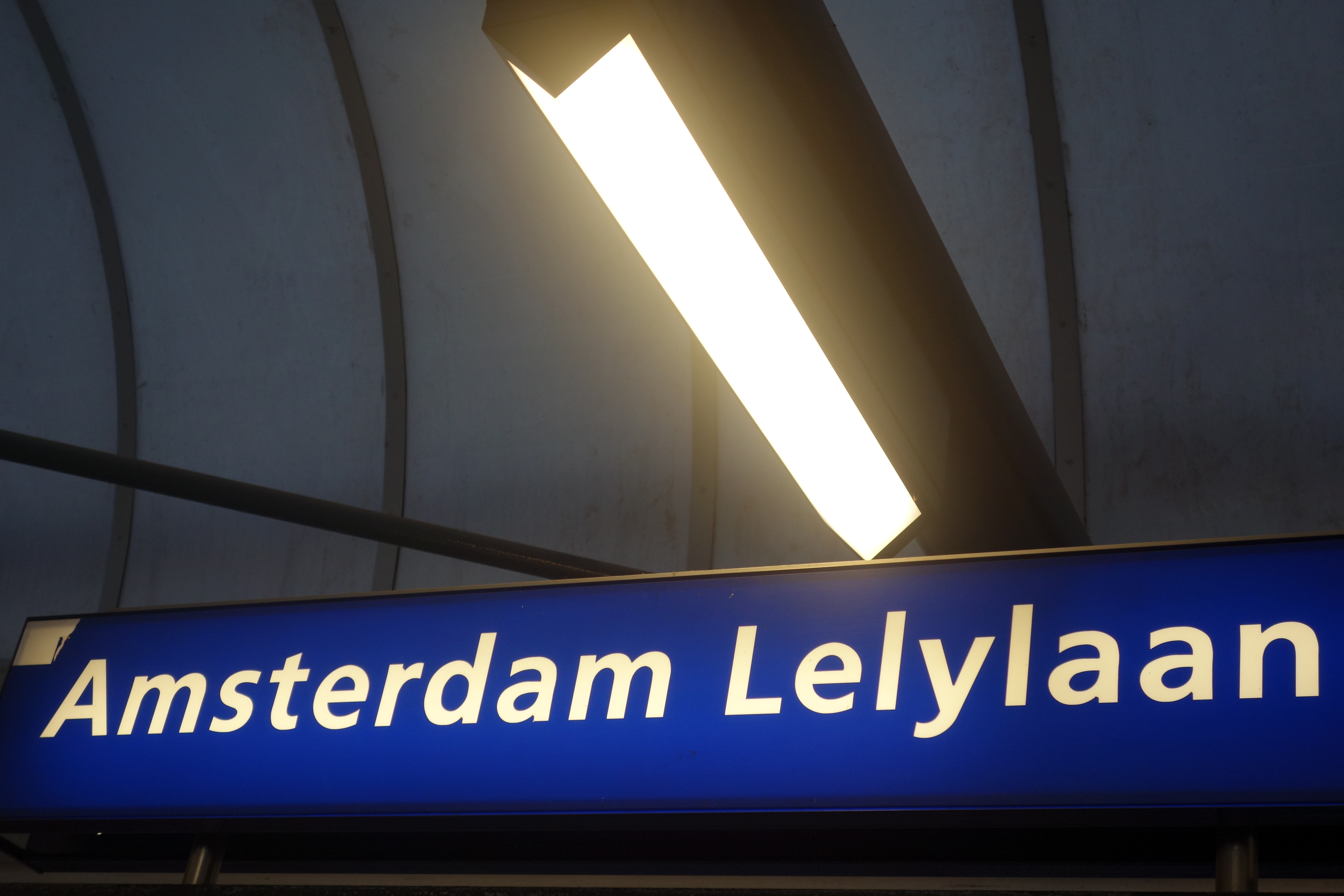 Railway Station Amsterdam Lelylaan, 2017